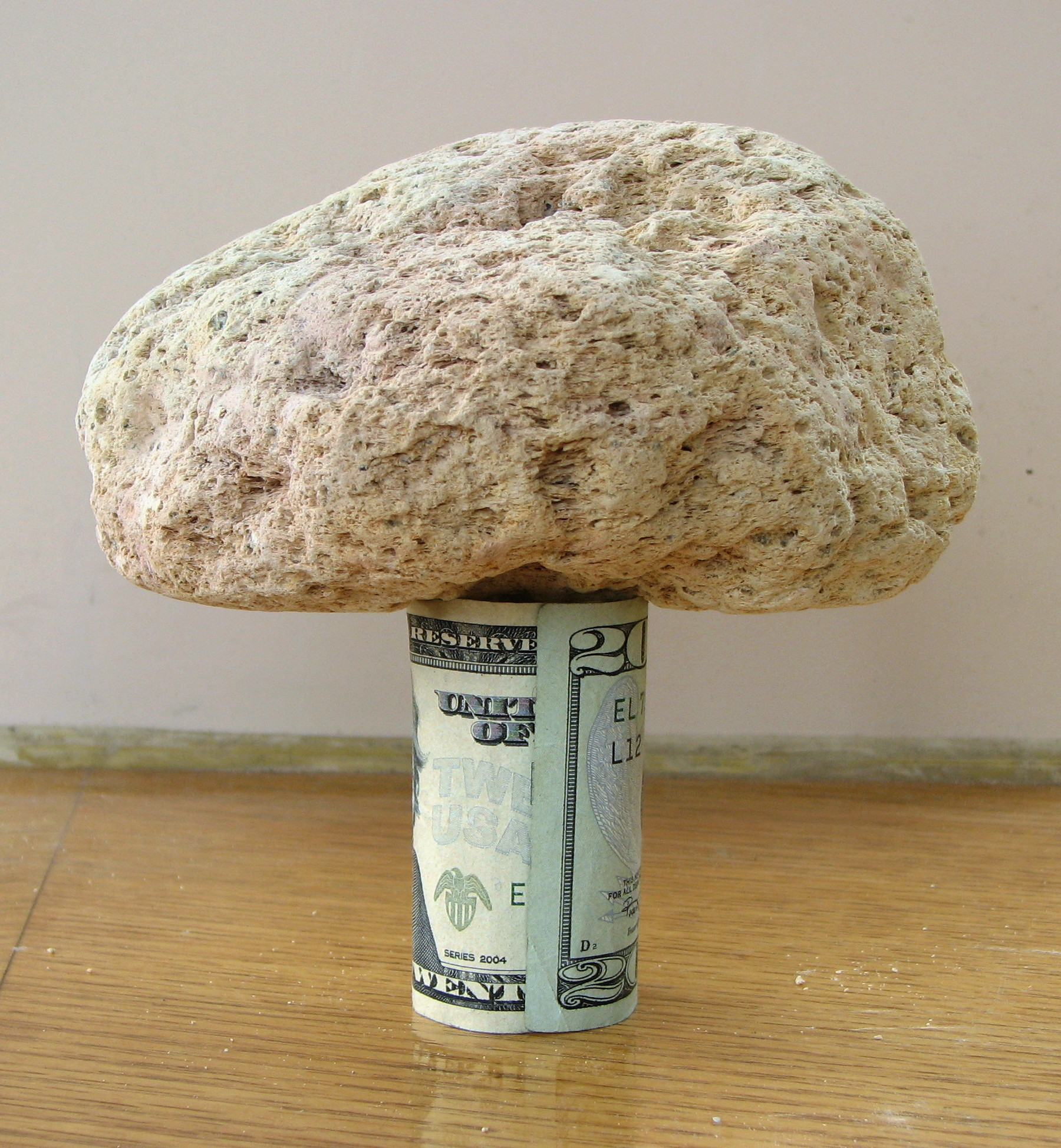 A six-inch-wide piece of pumice on a rolled-up US $20 bill. This demonstrates the extreme low density of pumice.